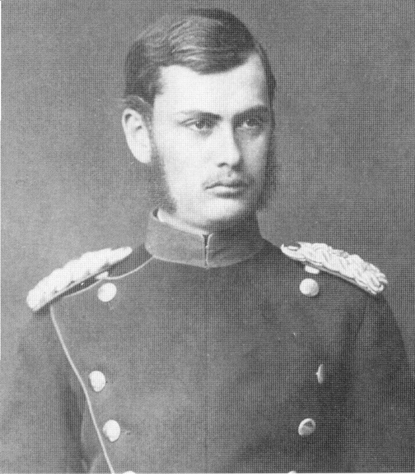 Maximilian Maria von Thurn und Taxis